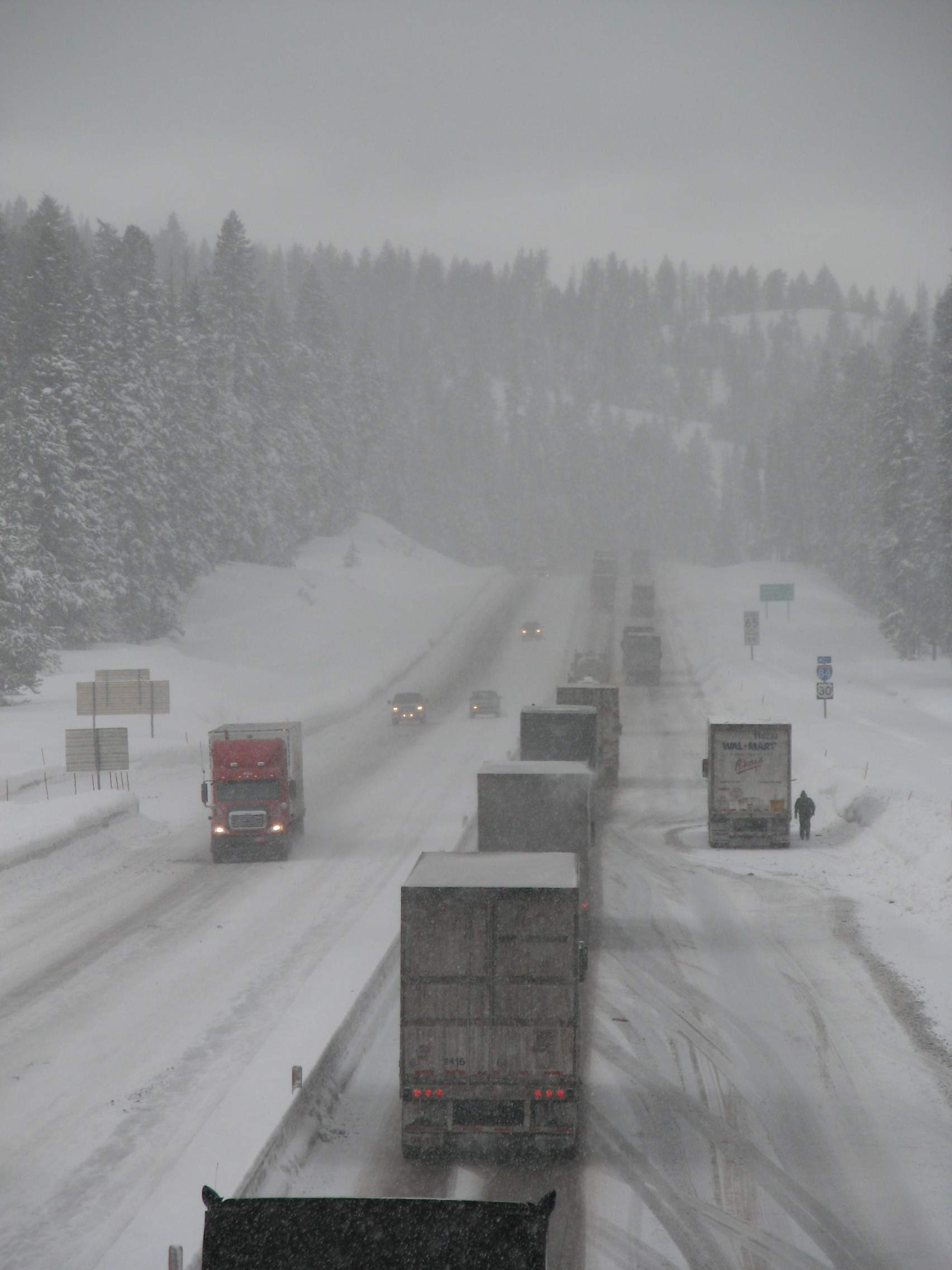 Snow blankets Interstate 84 in eastern Oregon on a January 2008 day.